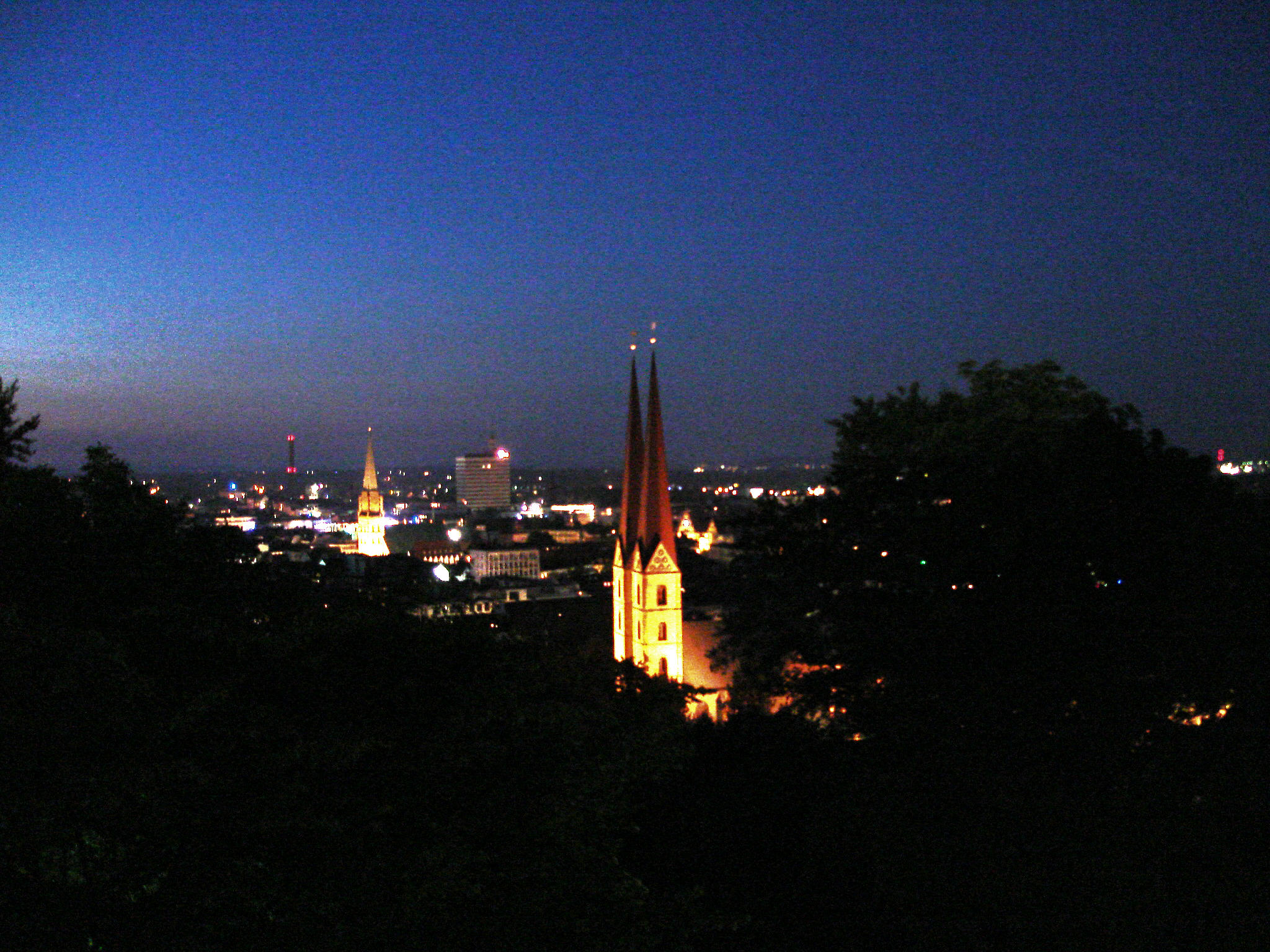 The city of Bielefeld seen from the Sparrenburg at night